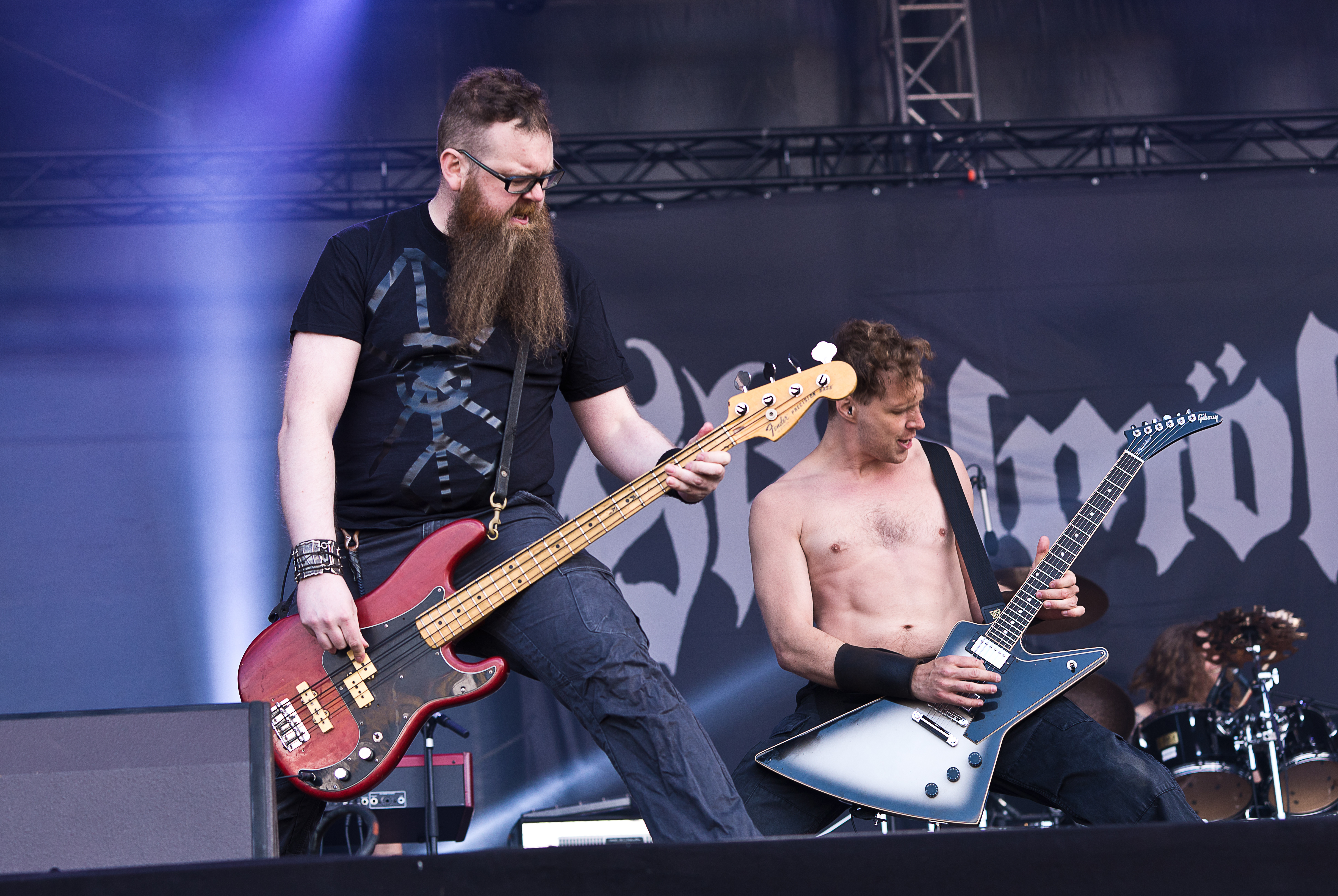 The Islandic viking metal band Skálmöld at the Rockharz Open Air 2015 in Ballenstedt/Germany.